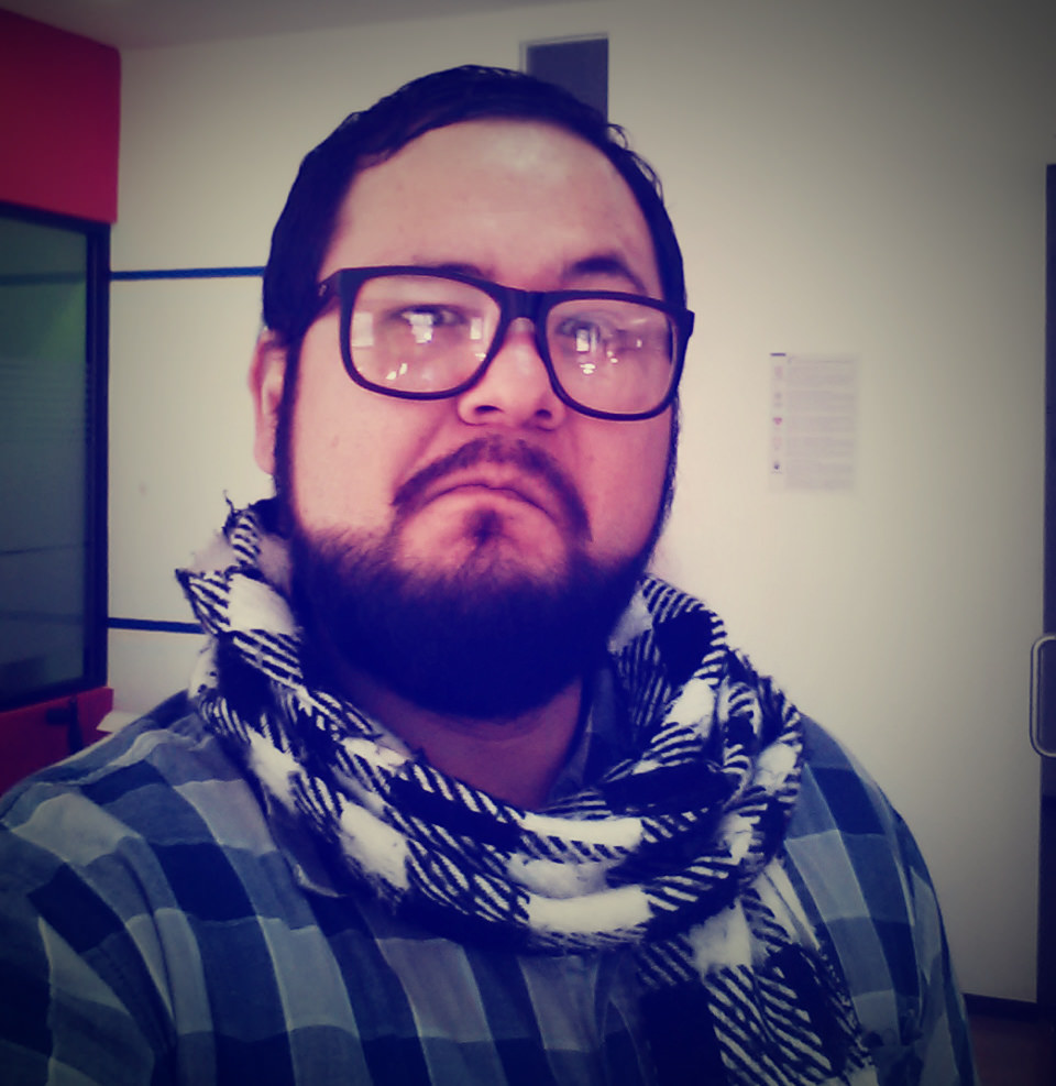 A man wearing typical "hipster" fashion